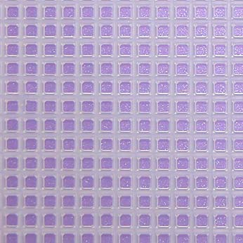 Plastic canvas material - my own photograph